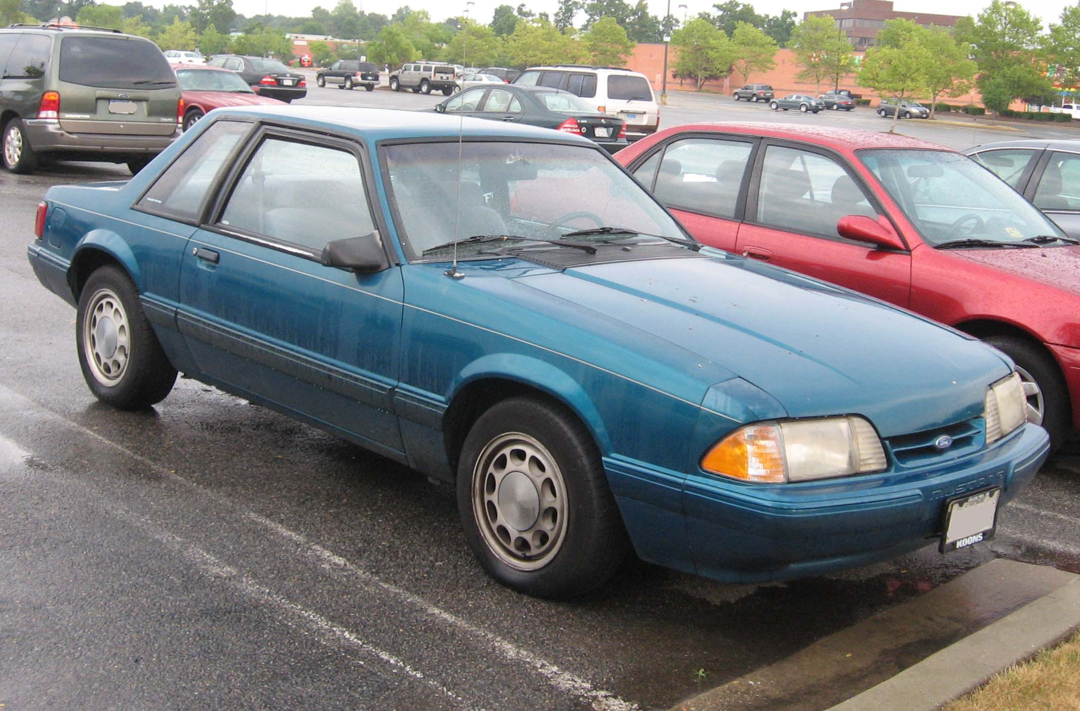 1987-1993 Ford Mustang photographed in USA.